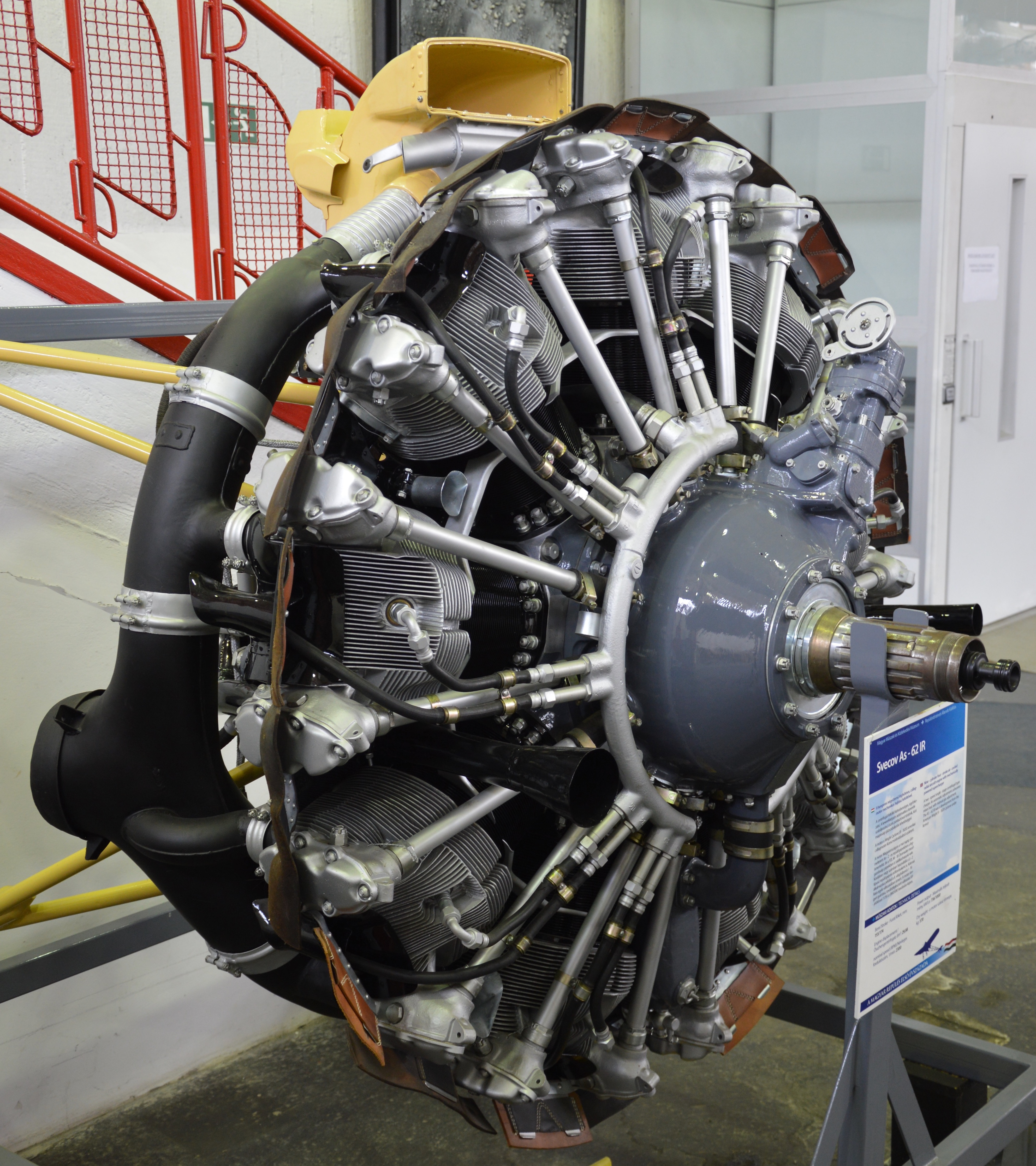 Soviet Shvetsov ASh-62IR radial engine on display at the Hungarian Technical and Transportation Museum (Budapest, Hungary)